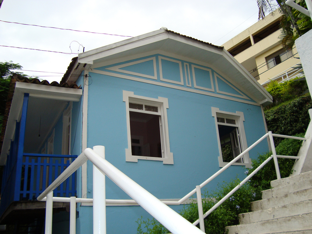 Roberto Carlos Culture House, in Cachoeiro de Itapemirim, Espírito Santo, Brazil.